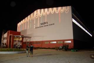 Das Nadia Comeneci Indoor Stadium in Chennai.